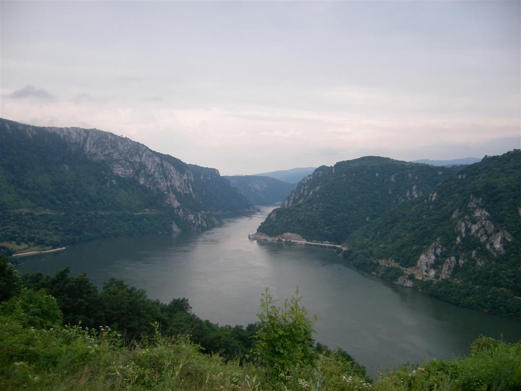 Danube at the narrowest point of the Iron Gates, seen from the Serbian side.